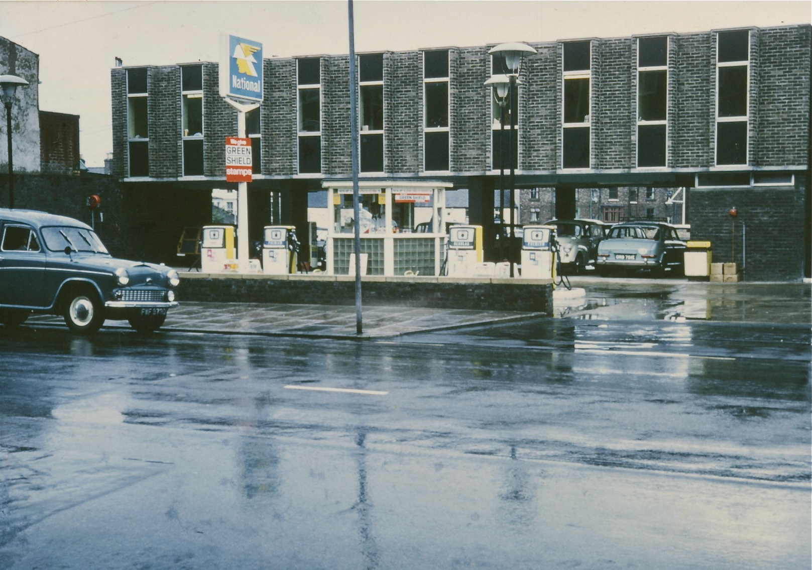 Another picture of Kennings Bridlington on a wet British summers day. This garage closed in the early 1980's and is now a Blockbuster video store and a discount retailer.